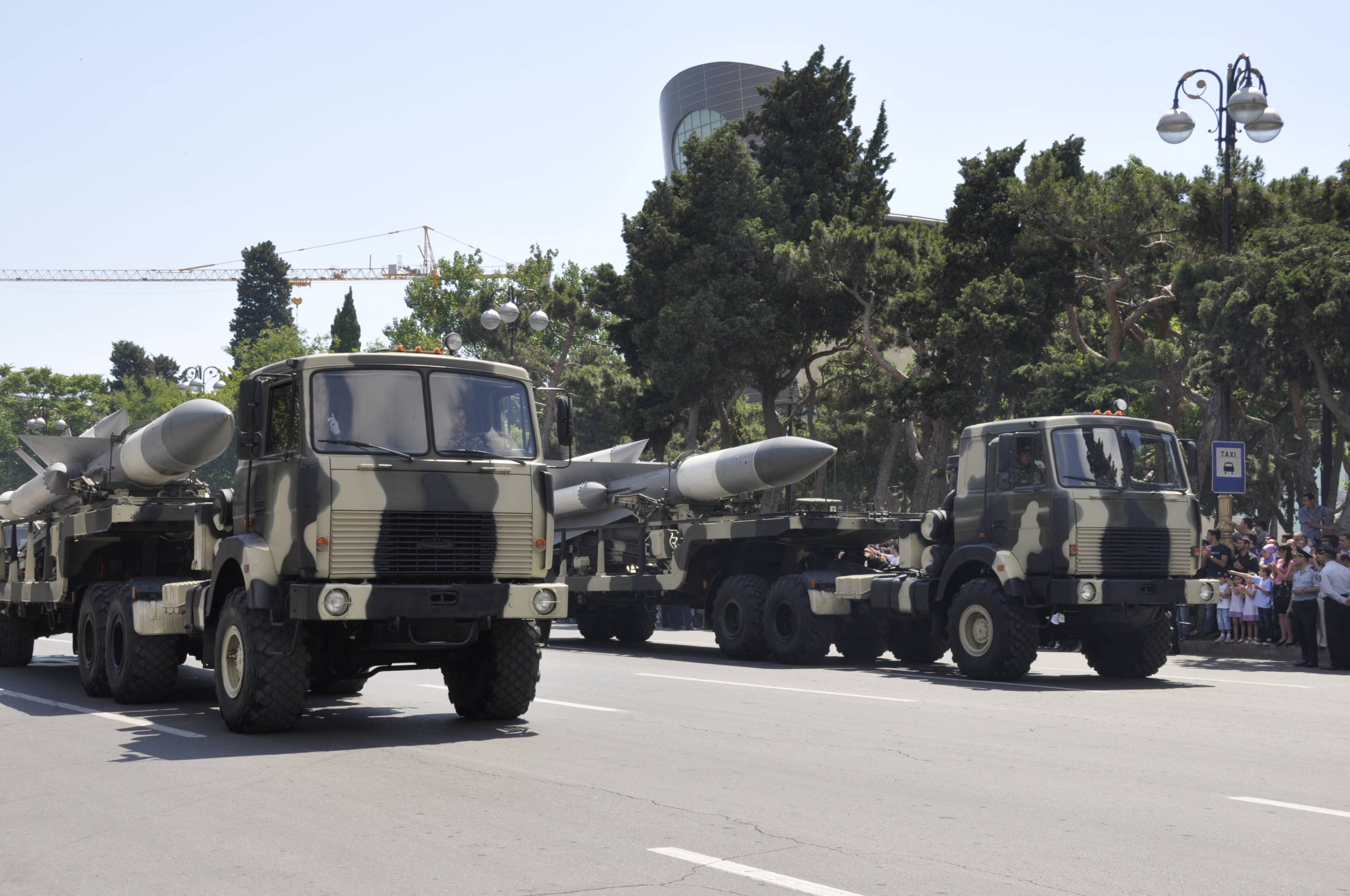 Military parade in Baku on an Army Day